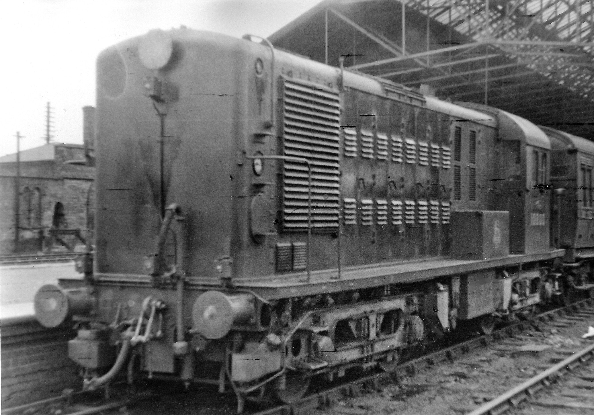 LMR experimental Bo-Bo Diesel at Rugby station. View eastward on the Down main platform at Rugby; ex-London & North Western WCML. No. 10800 was an 0-4-4-0 (Bo-Bo) 800 hp Diesel locomotive designed for the LMS in 1947 by English-Electric and British Thompson Houston for secondary services. It was delivered to the London Midland Region in June 1950 and put to extensive trials on the Derby - Manchester route and then on the Southern Region, eventually settling down to work passenger trains between Rugby and Peterborough. However, its performance and reliabiity were disappointing and it was withdrawn in 1959 and not perpetuated. Here in 1955 it is on a train from Peterborough.